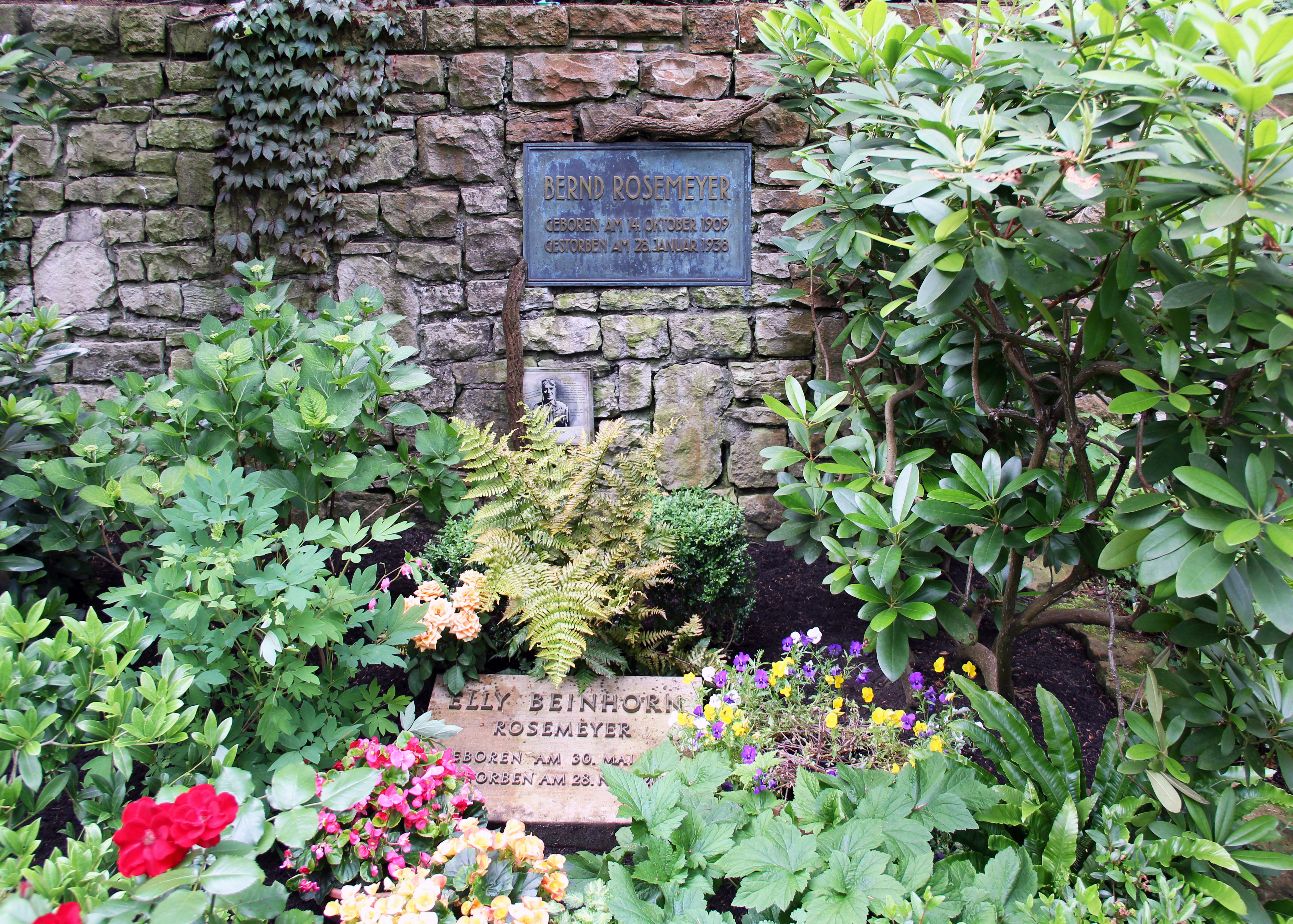 Grave, Elly Beinhorn and Bernd Rosemeyer, Hüttenweg 47, Berlin-Dahlem, Germany